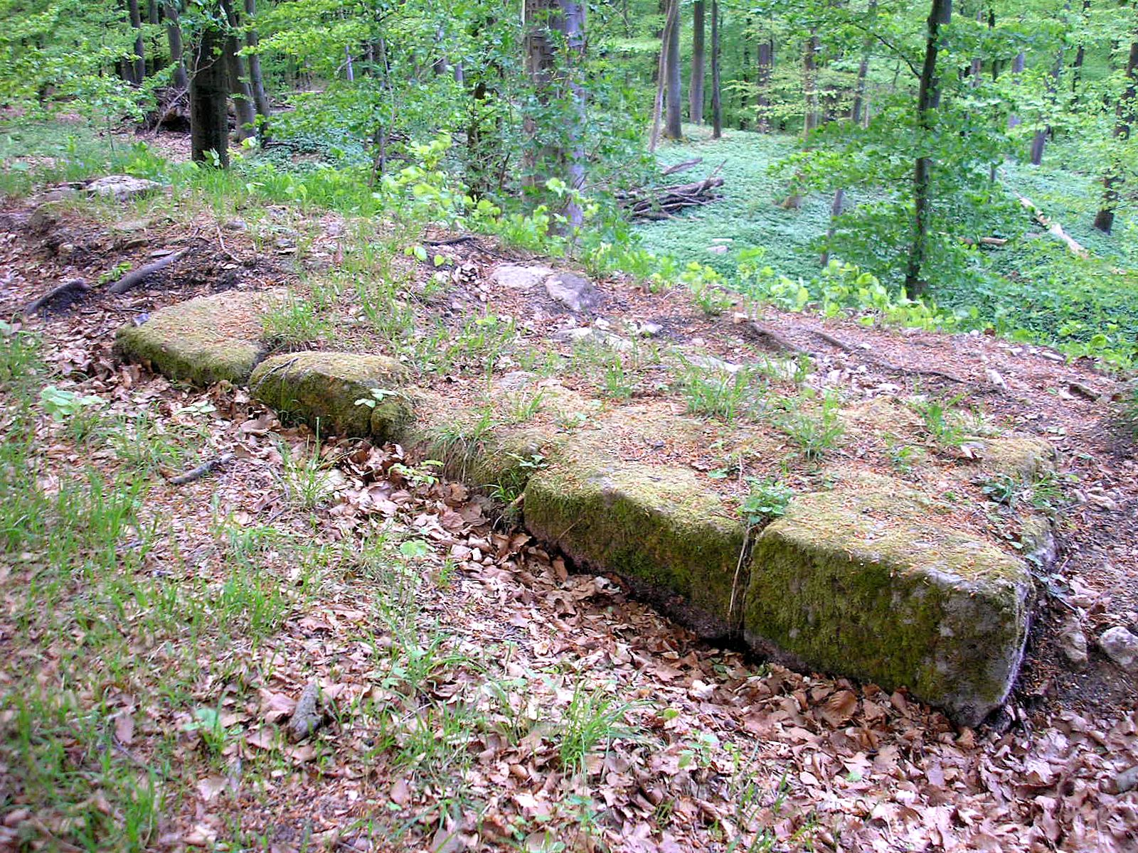 Stufenberg castle (Baunach, Landkreis Bamberg, Upper Franconia, Bavaria, Germany). Sandstone foundations at the north west of the central castle